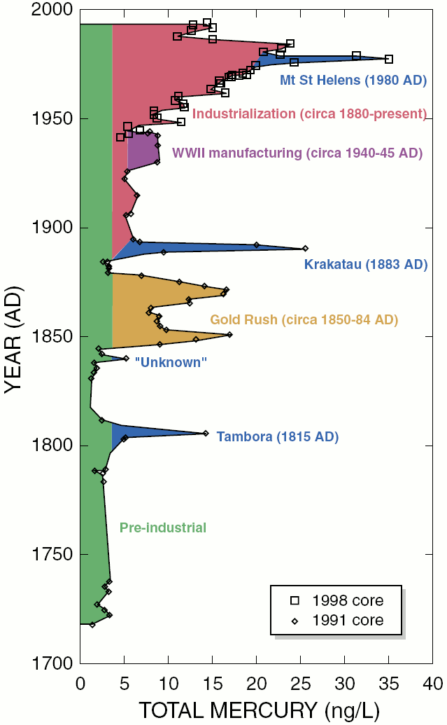 This chart shows the level of atmospheric mercury deposition detected in ice cores from the Upper Fremont Glacier in Wyoming. Heightened deposition rates correspond to volcanic and anthropogenic events over the past 270 years. Preindustrial deposition rates can be conservatively extrapolated to present time (4 ng/L; in green) to illustrate the increase during the past 100 years (in red) and significant decreases in the past 15-20 years.